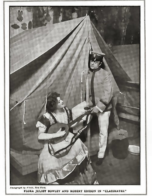 Scene from the play Classmates with Flora Juliet Bowley and Robert Edeson